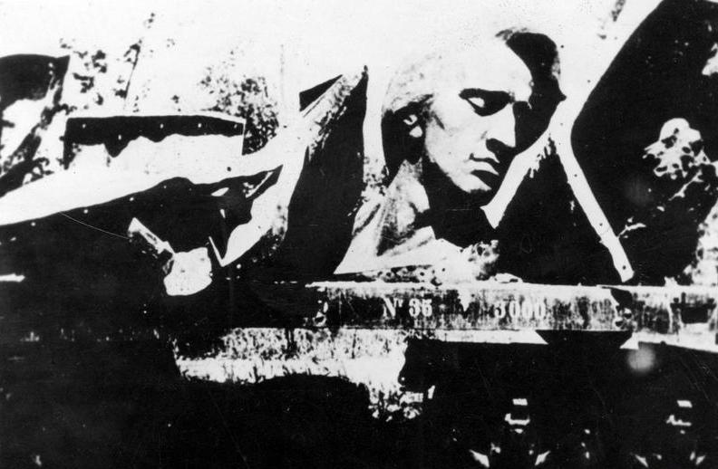 Destroyed Fryderyk Chopin Monument from the Royal Baths Park in Warsaw. The statue executed in 1926, to 1907 design by Wacław Szymanowski, was deliberately destroyed by the Germans in 1940.[1]